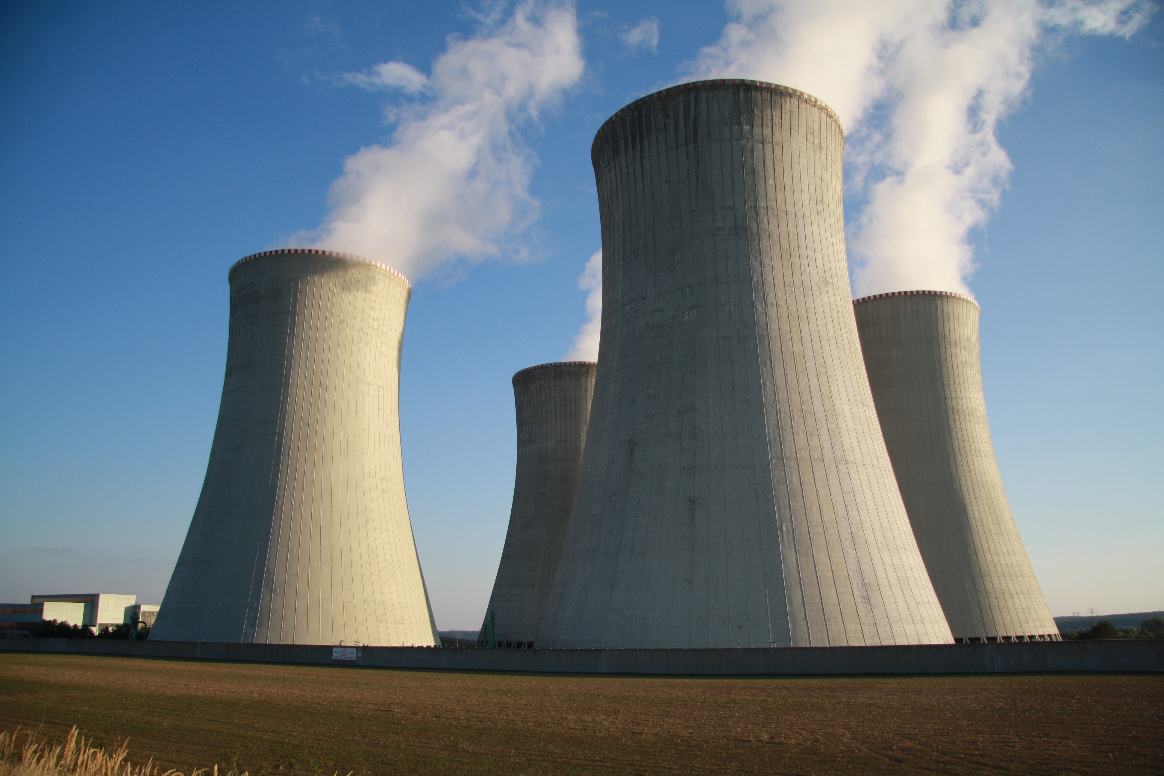 Cooling towers of Dukovany Nuclear Power Plant in Dukovany, Třebíč District.